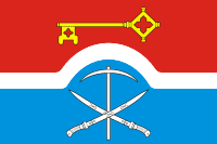 Flag of Donetck, Rostov Region, Russia